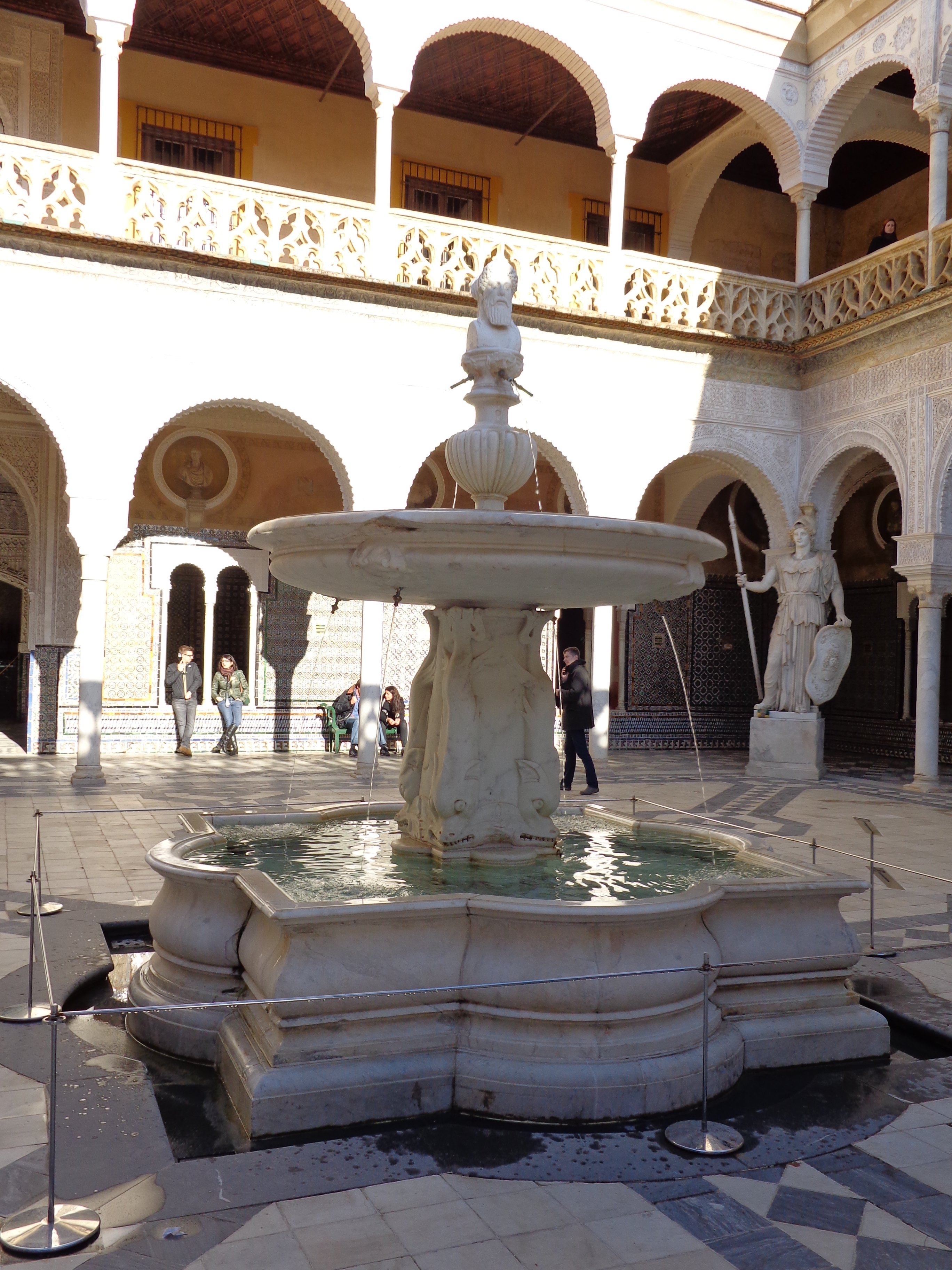 Casa de Pilatos, Seville.